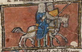 Miniature from Aiol depicting Aiol taking Mirabel to France with him after slaying her captors. Ms. 25516 fr. of the BnF, fol. 133v.